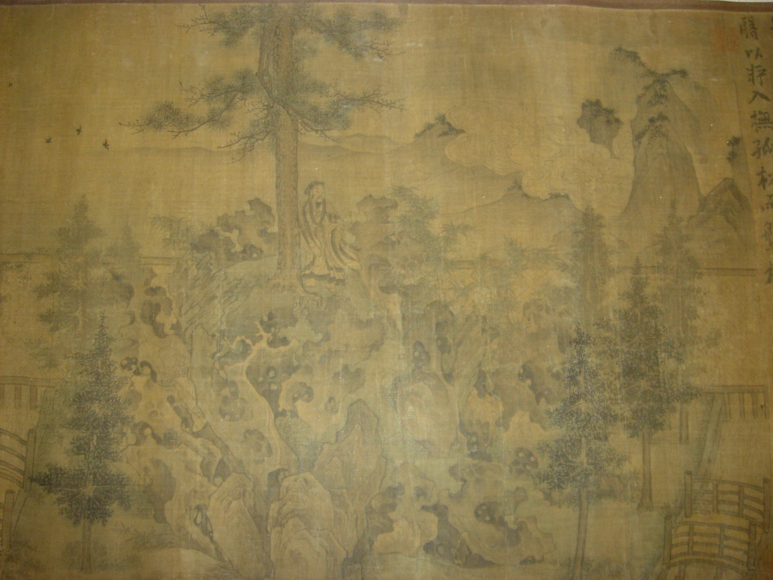 Tao Yuanming Returning to Seclusion, a Chinese handscroll painting on silk, from the late Northern Song Dynasty, early 12th century. The Song Dynasty scholar Li Peng (c. 1060-1110) inscribed a poem on this handscroll entitled Returning Home in honor of the 4th century poet Tao Qian, otherwise known as Tao Yuanming. From the Freer and Sackler Galleries of Washington D.C. Author: User:PericlesofAthens Date: August 3, 2007